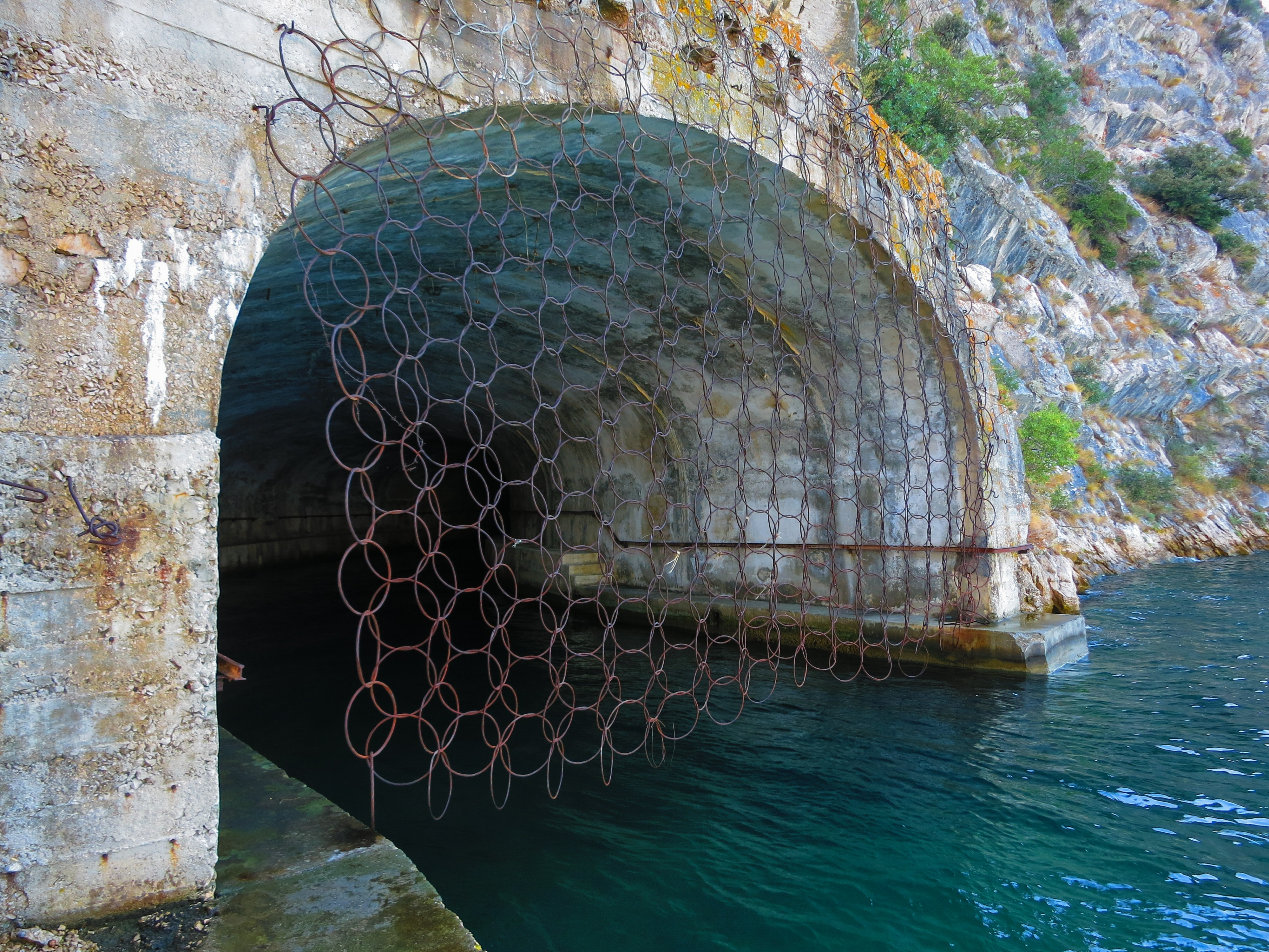 Entrance to “Hitler’s Eye” tunnel near Šibenik (Croatia). The tunnel was built into the coast rock of Adriatic Sea during World War II. It served as a shelter for German warships.